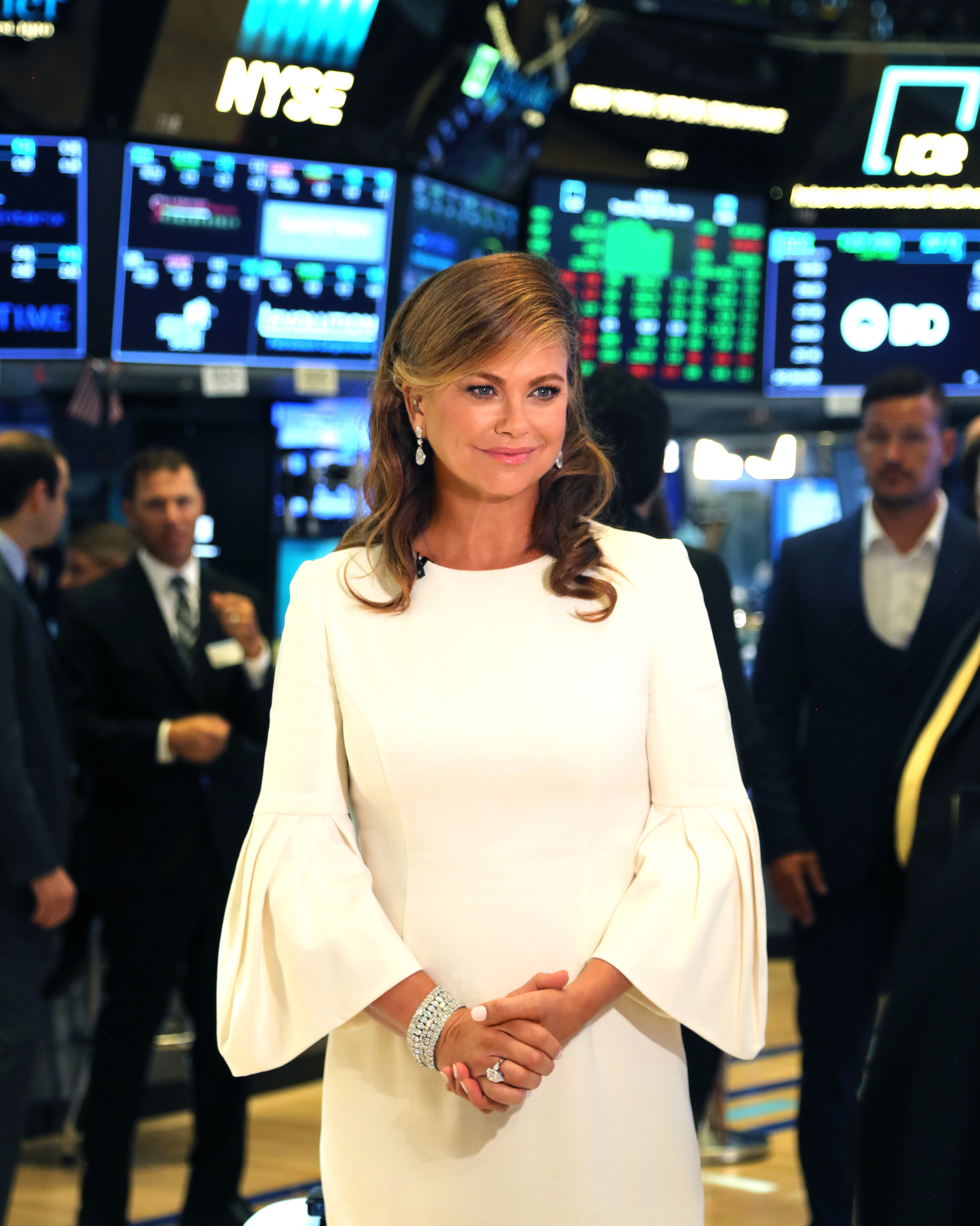 NYSE